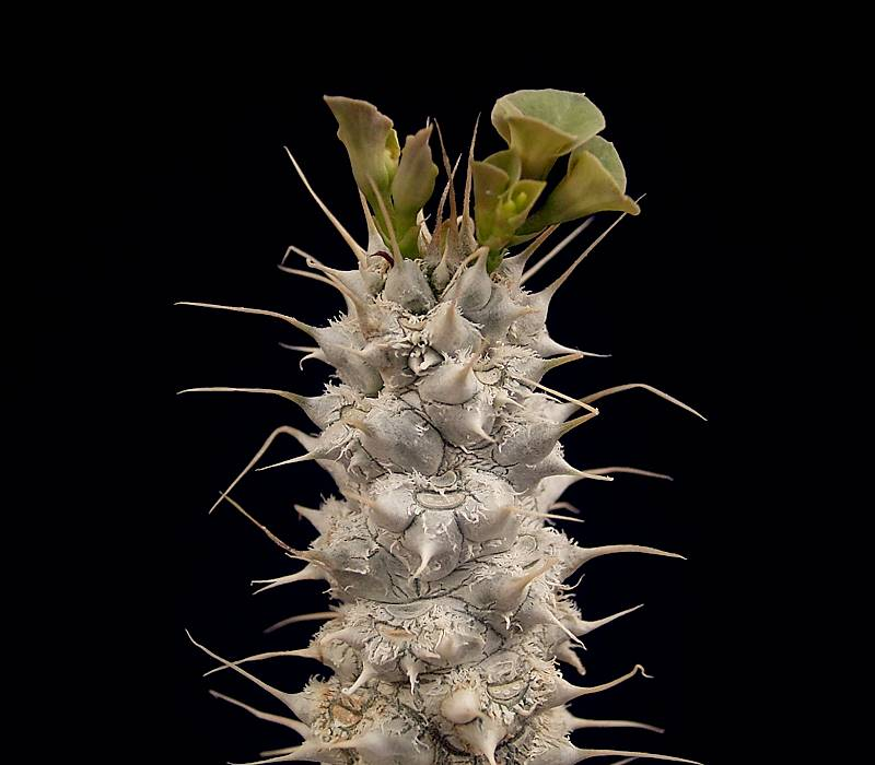 Euphorbia parvicyathophora